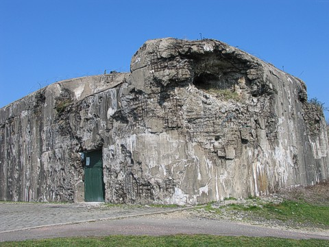 Fort Aubin-Neufchateau, Belgium